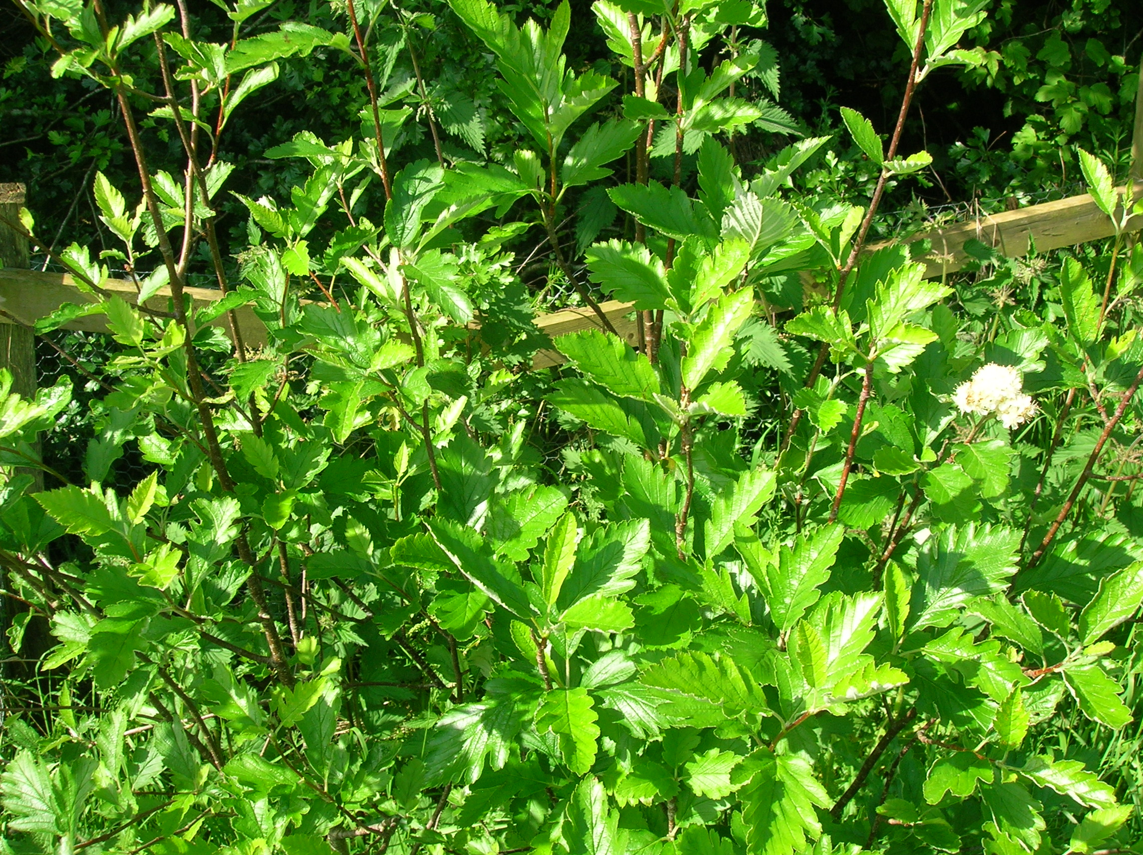 Sorbus arranensis foliage, Eglinton Country Park, Irvine, Scotland.